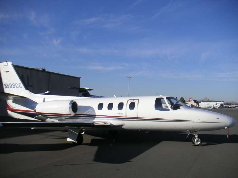 Cessna Citation (N503CC)